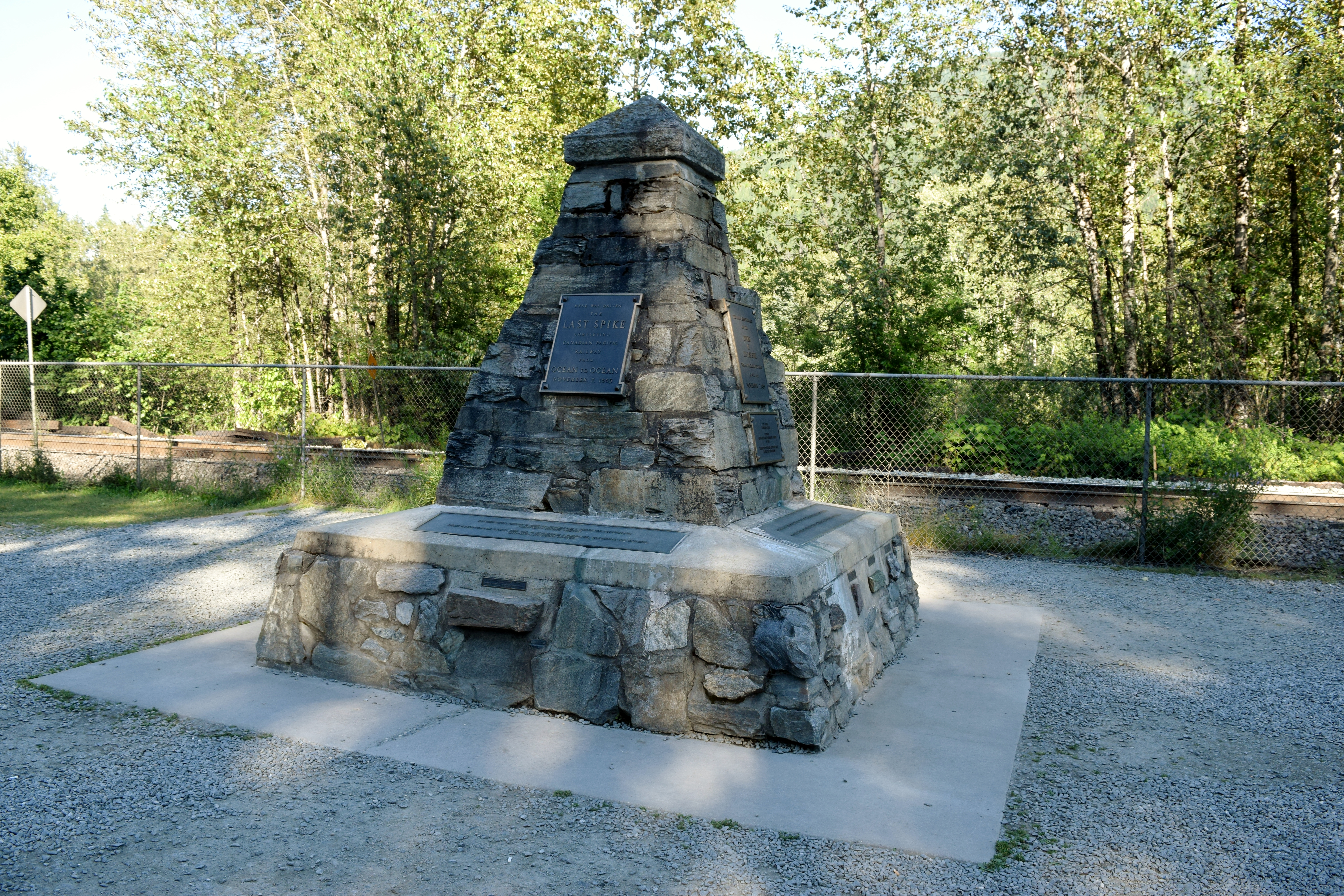 Last Spike monument, Craigellachie, British Columbia (2017) Image was taken on Canada Day on the 150th anniversary of Canada's Confederation.